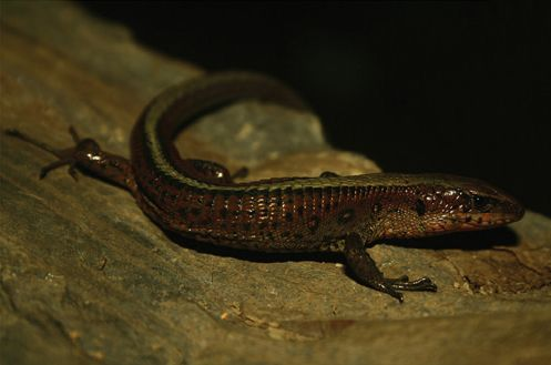 Euspondylus chasqui, female (CORBIDI 06961).